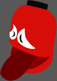 Chōchinobake (提灯お化け, a haunted paper lantern)